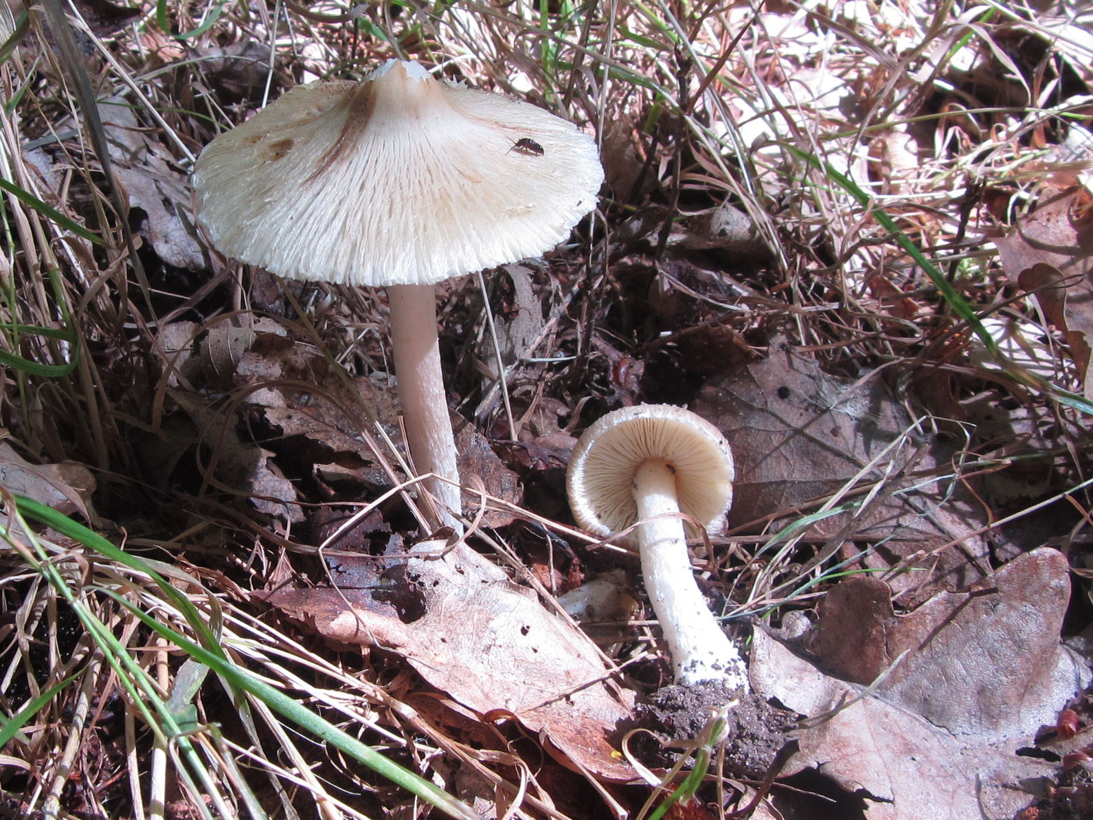 Inocybe rimosa in la Forêt de la Roche Turpin near Arpajon, France.